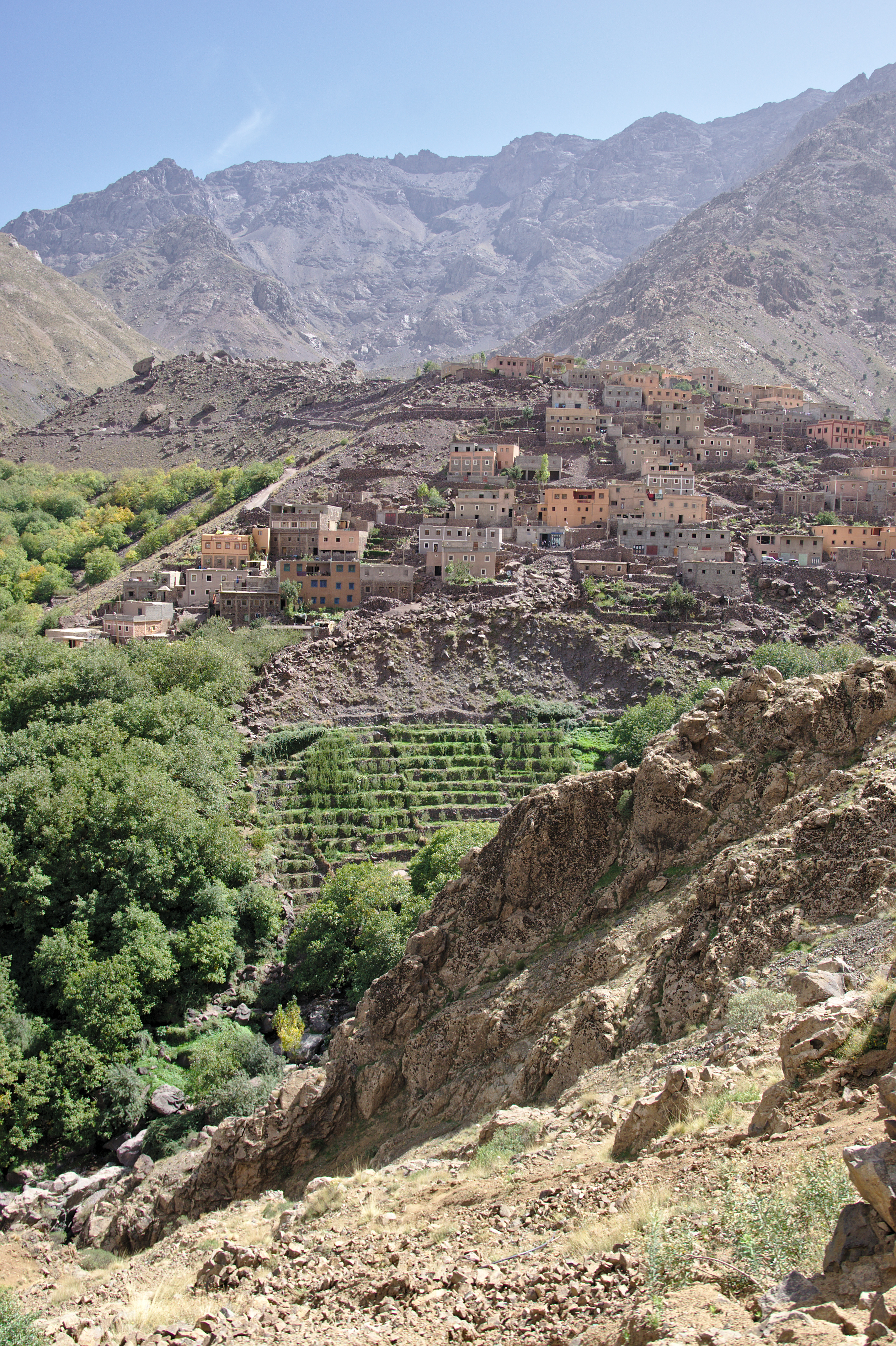 Village of Aroumd. Imlil Valley, Toubkal National Park.